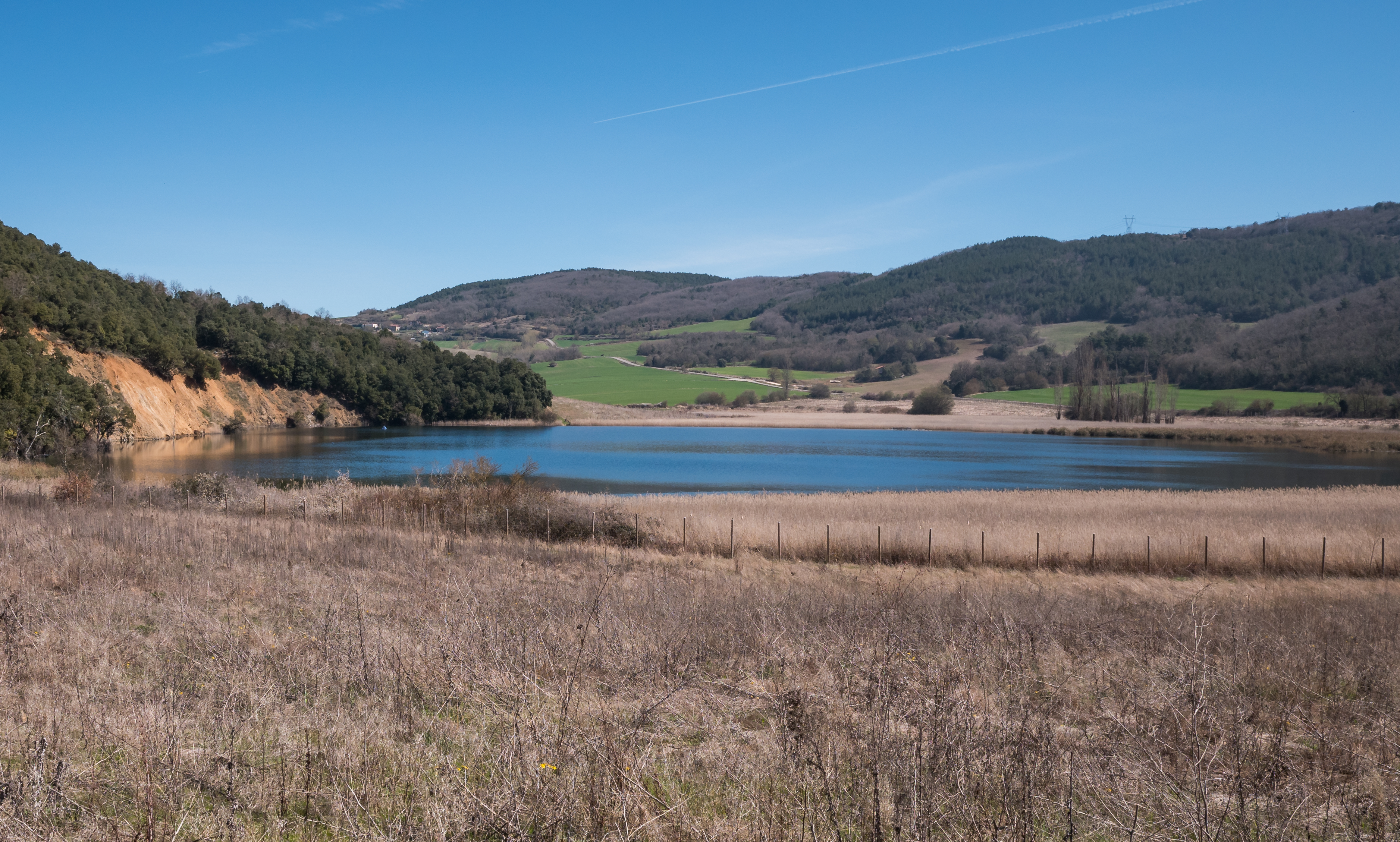 Arreo Lake, the only natural lake of the Basque Autonomous Community. Álava, Basque Country, Spain